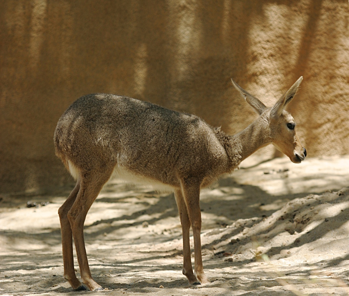 A Vaal Rhebok (Pelea capreolus) at the San Diego Zoo in San Diego, California, USA.